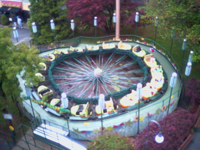 From the Sky Ride cable car / gondola. Overhead view of the Caterpillar ride at Canobie Lake Park, (Salem, New Hampshire ) Taken on June 5, 2008